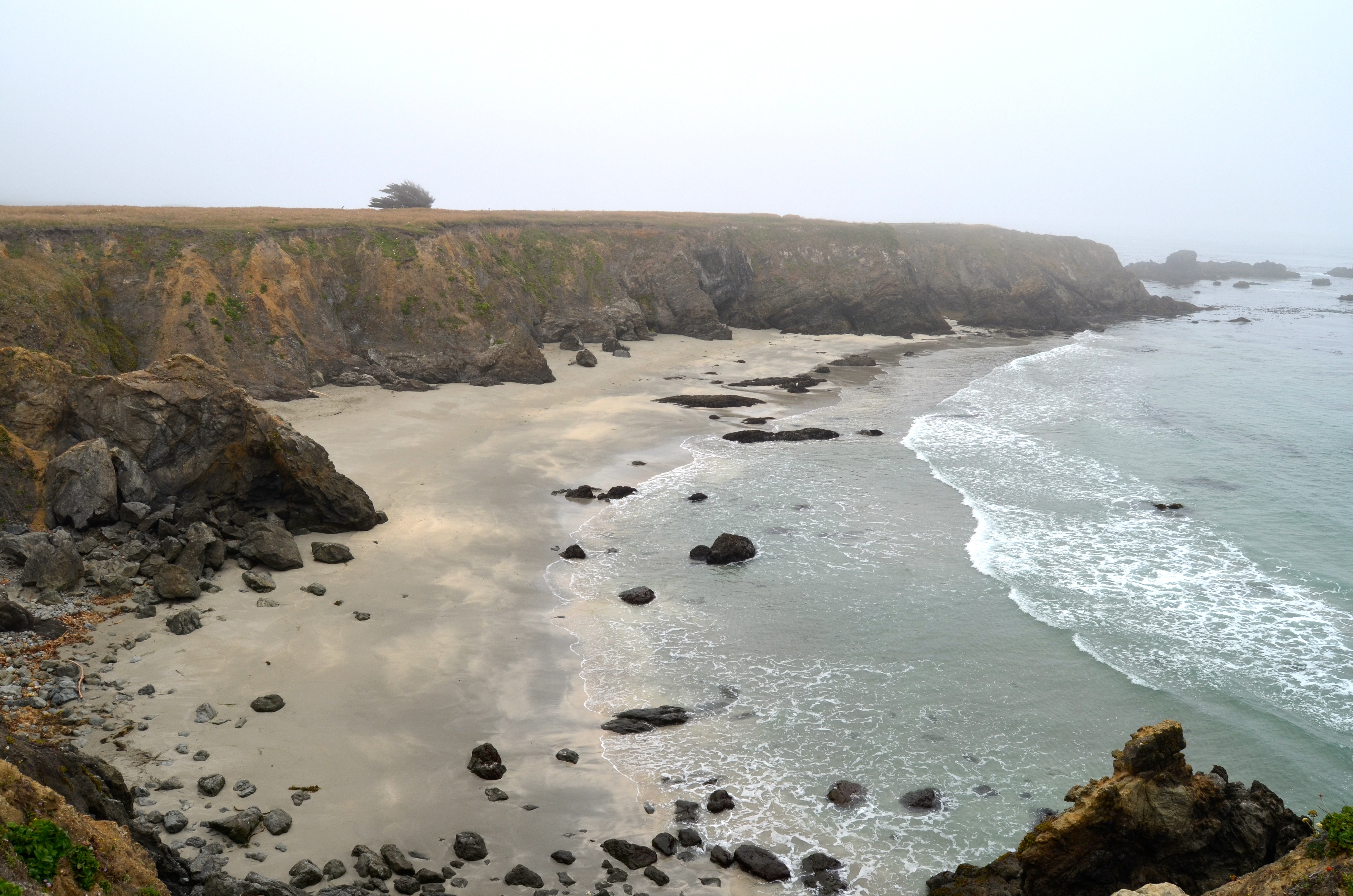 Beach at Point Cabrillo Light Station State Historic Park, California, USA